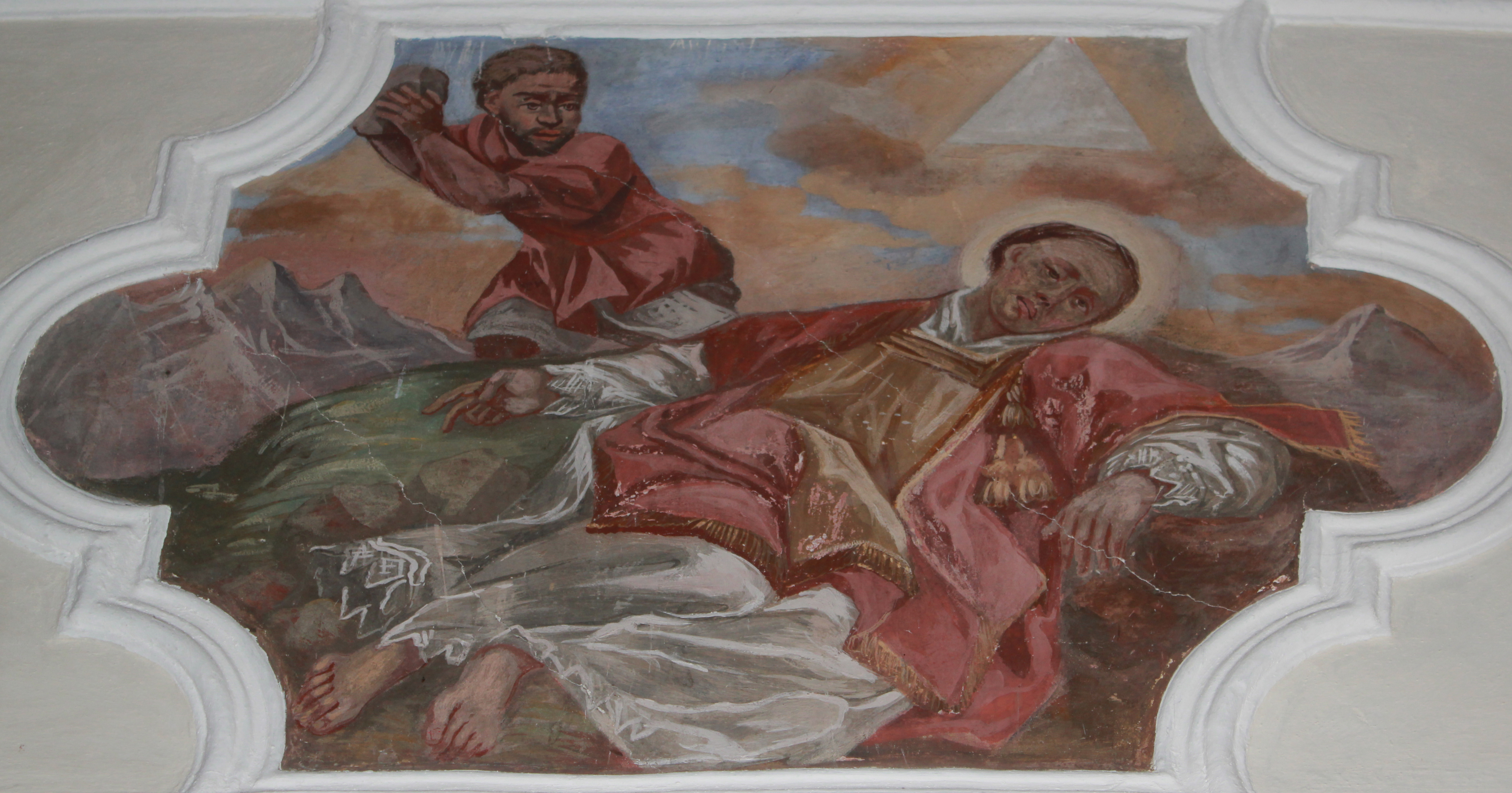 Church of St. Stefan in the community of Sankt Stefan im Gailtal - Death of Saint Stephen